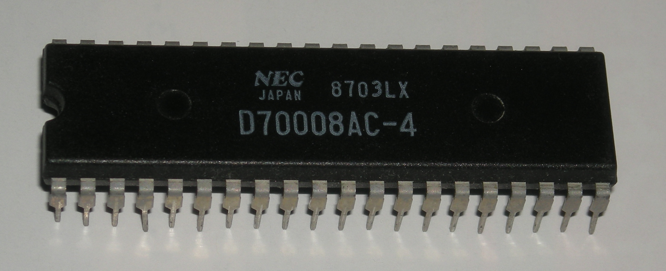 uPD70008AC-4 CPU made by NEC.